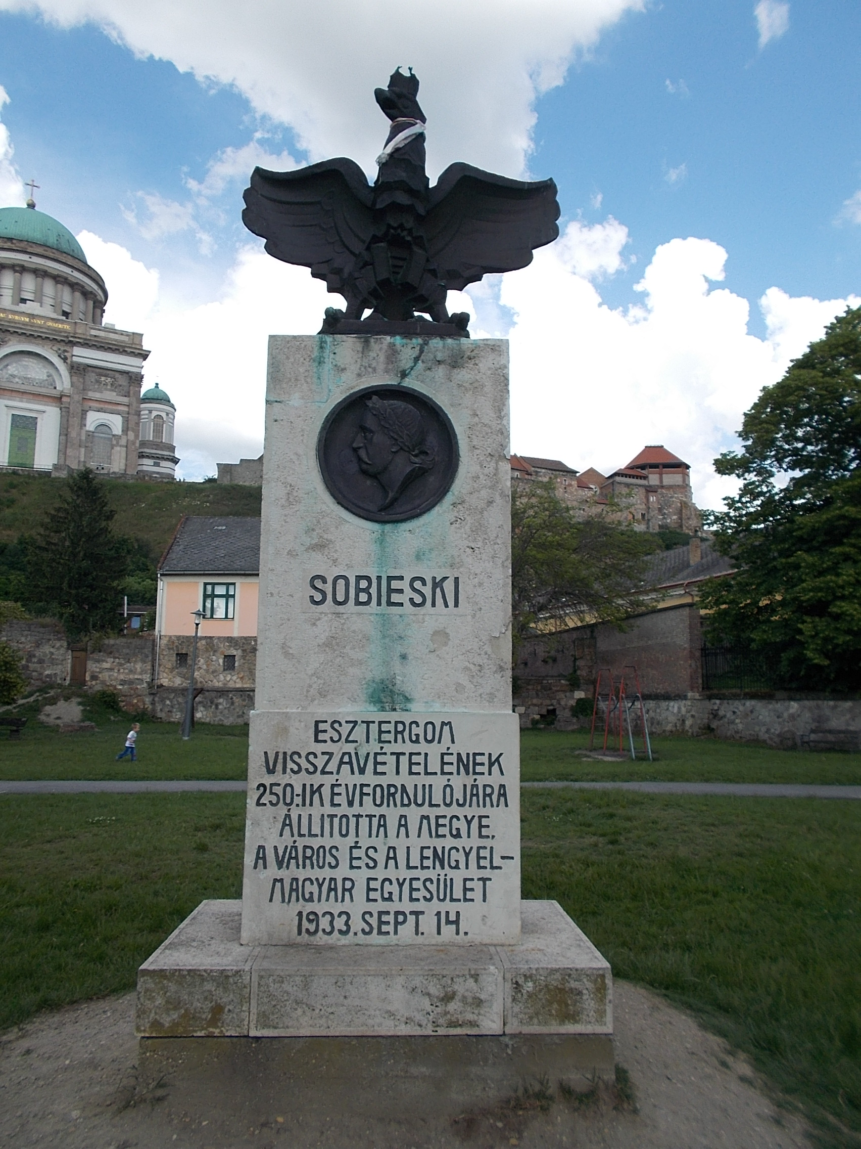 Memorial of John Sobieski It is s made to commemorate the battle of Sturovo. bronze relief, On top of the Memorial was a carved stone eagle. It is broken off and disappeared. Replacing that, a one meter high bronze eagle made in 1994 by sculptor János Nagy. Erected for 250th anniversary of Siege of Esztergom by Polish-Hungarian Association. Located: Erzsébet Park, Vizváros (Watertown), Esztergom, Komárom-Esztergom County.